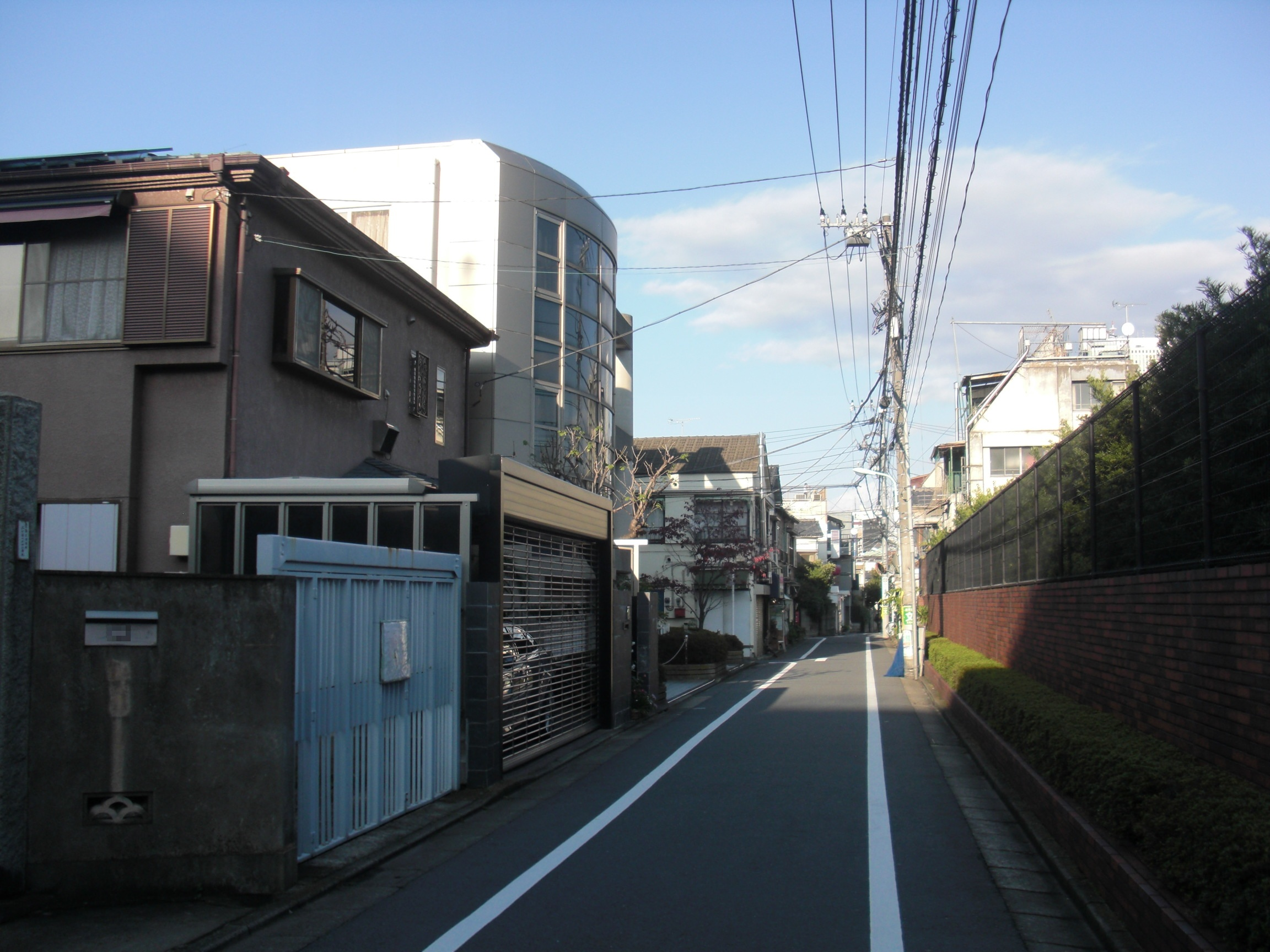 This is a landscape of Mejiro 2 chome, Toshima, Tokyo, Japan.